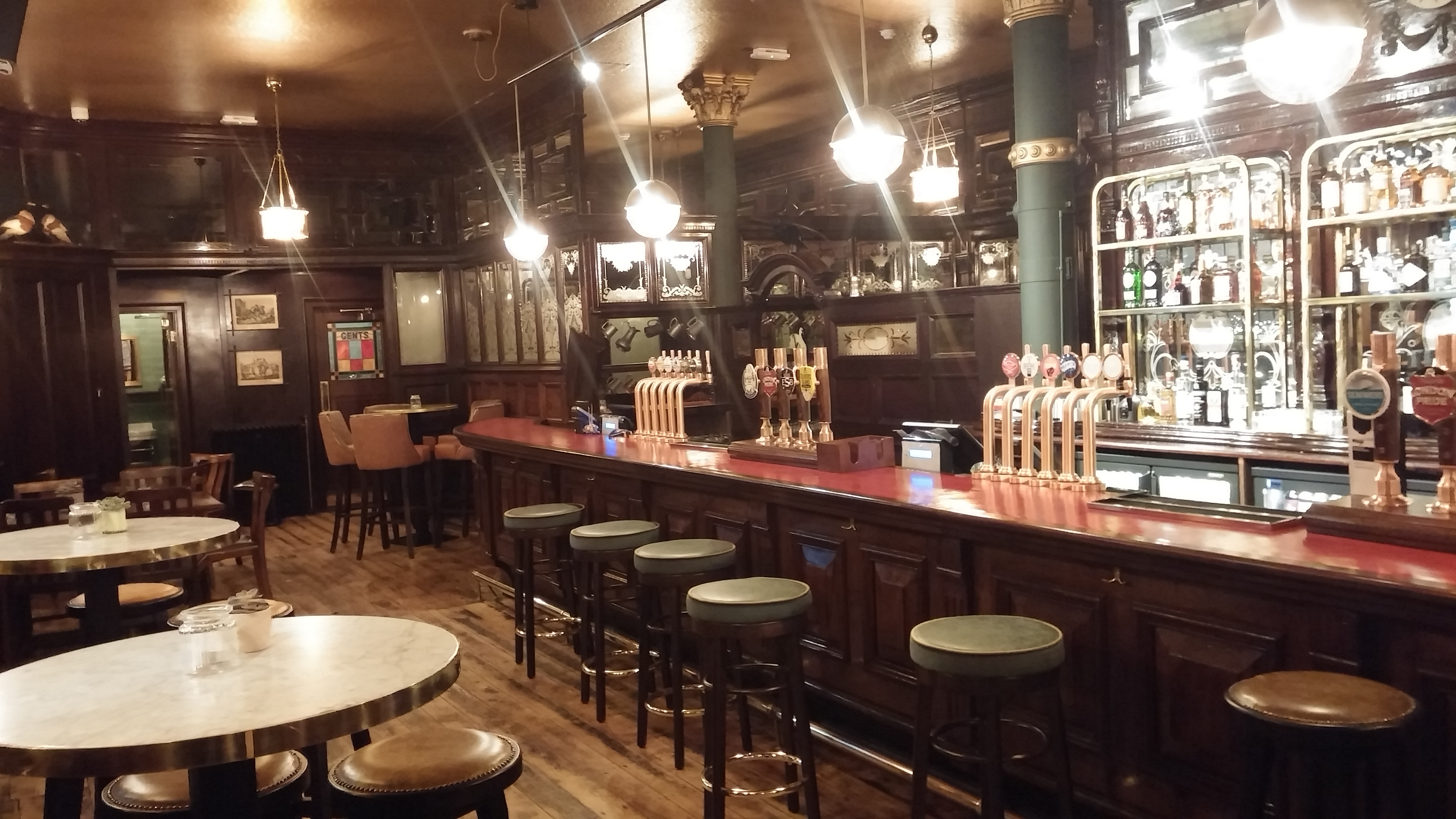 View of the Victorian public bar in the Half Moon, Herne Hill.